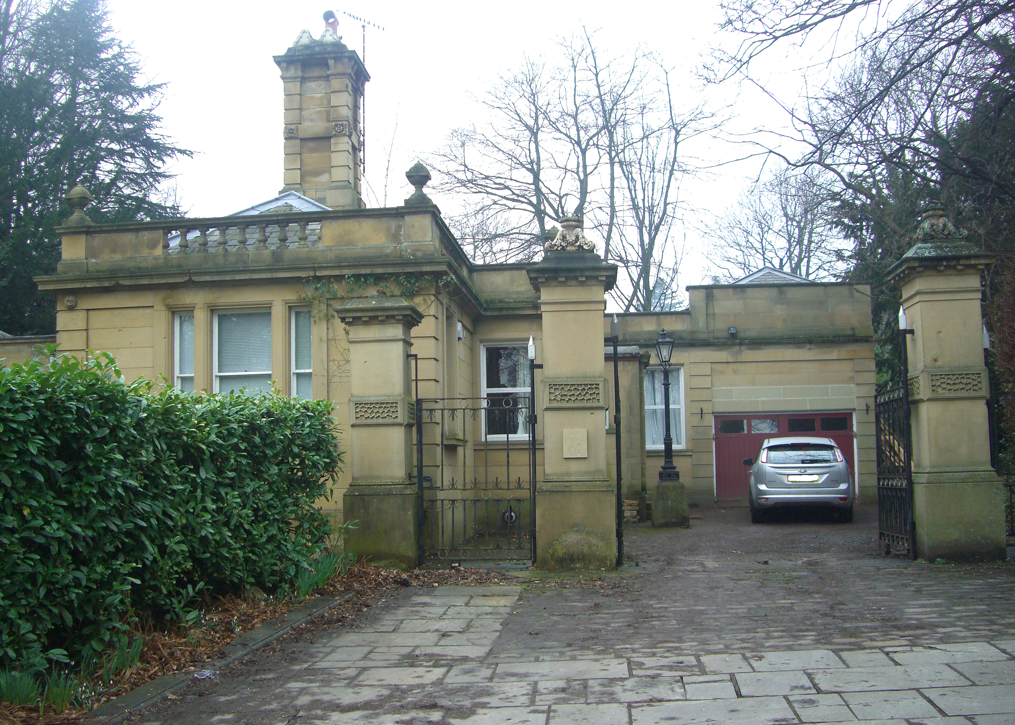 The lodge and gate piers at Endcliffe Hall, both Grade II listed structures in Endcliffe Vale Road, Sheffield, England.